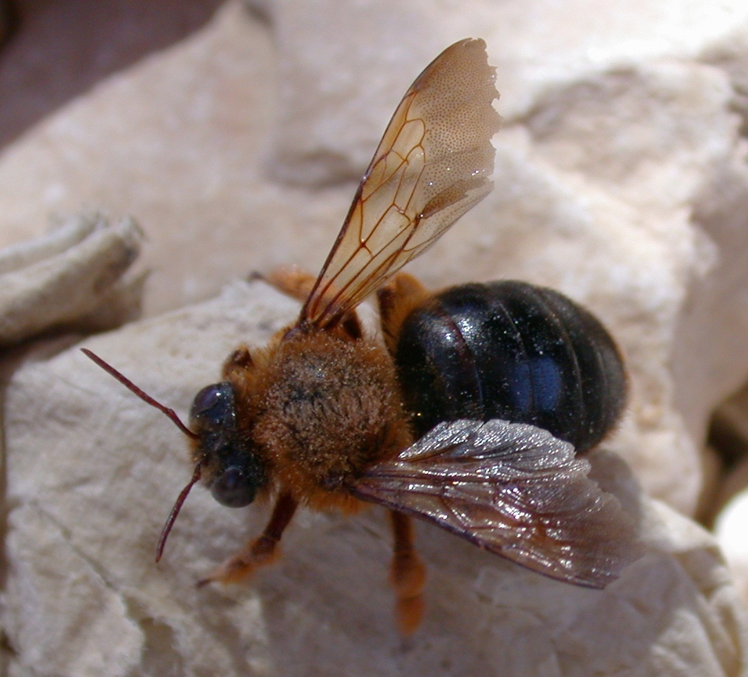 Xylocopa (Proxylocopa) rufa, female, Negev, Israel, February 17, 2007.